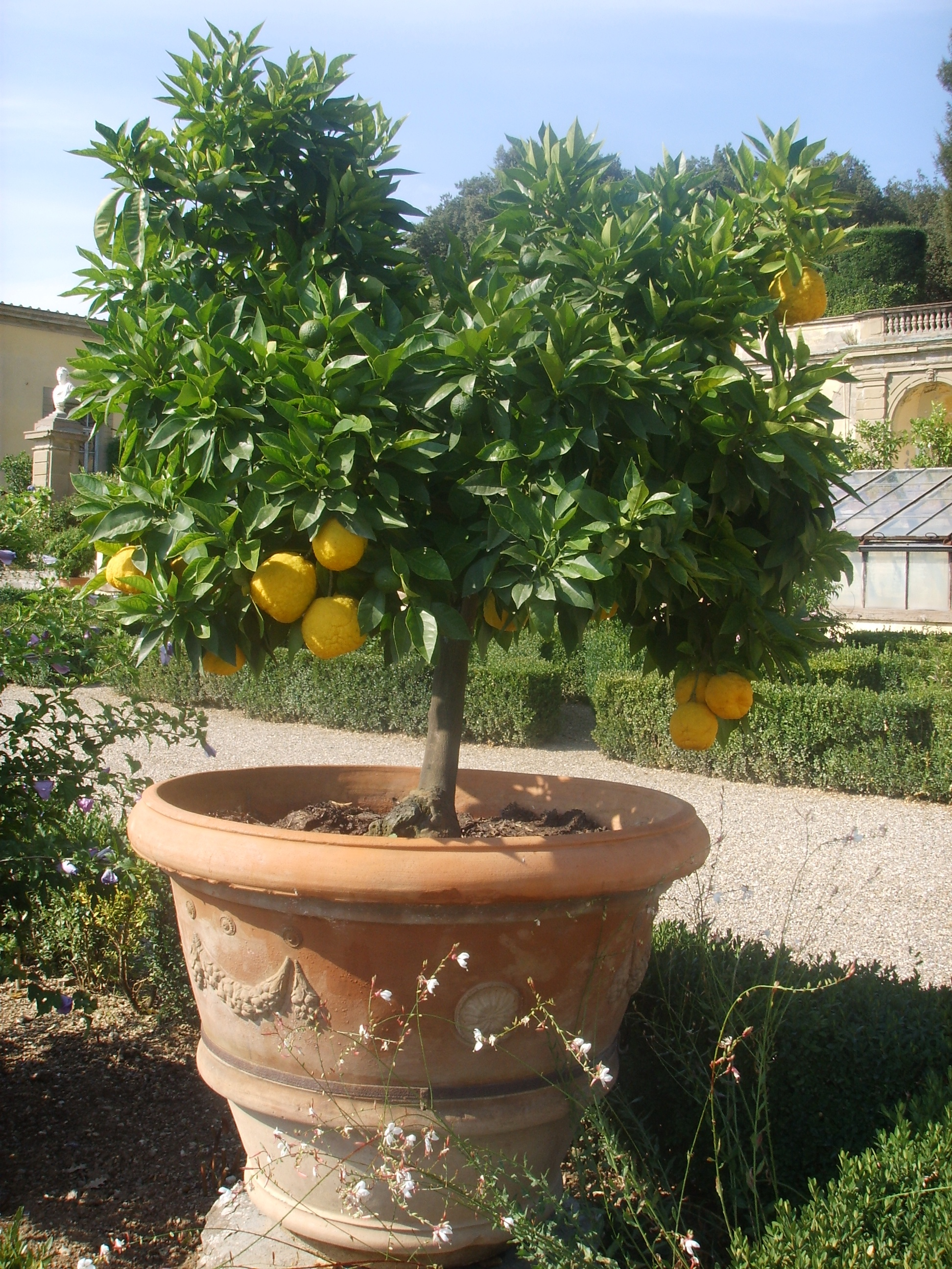 Parco di Villa Reale di Castello (Villa di Castello) Secret garden (Orto segreto di piante aromatiche) Collection of citrus (collezione di agrumi rari)